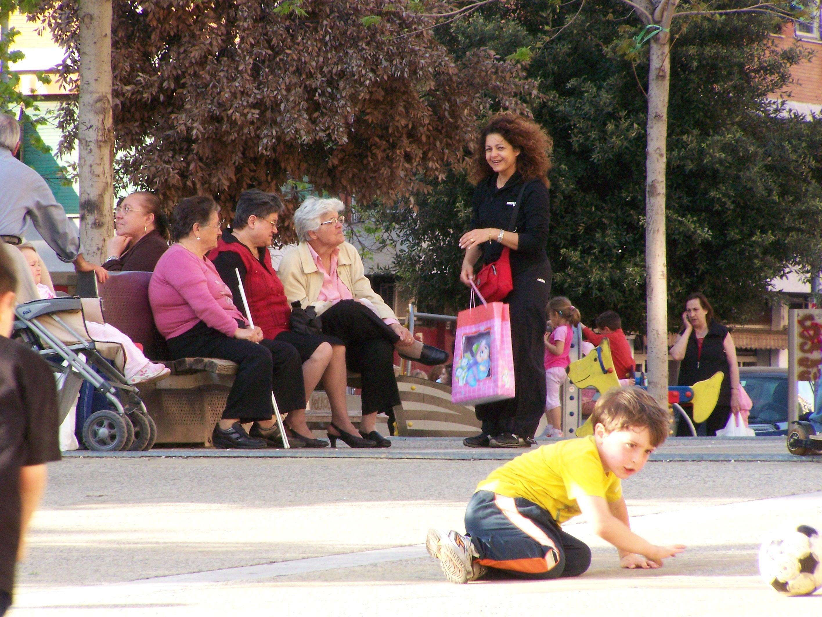 Madeline Giscombe